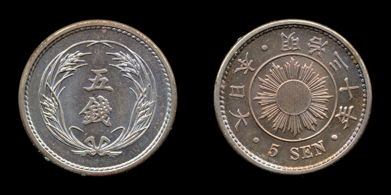 5sen-M30